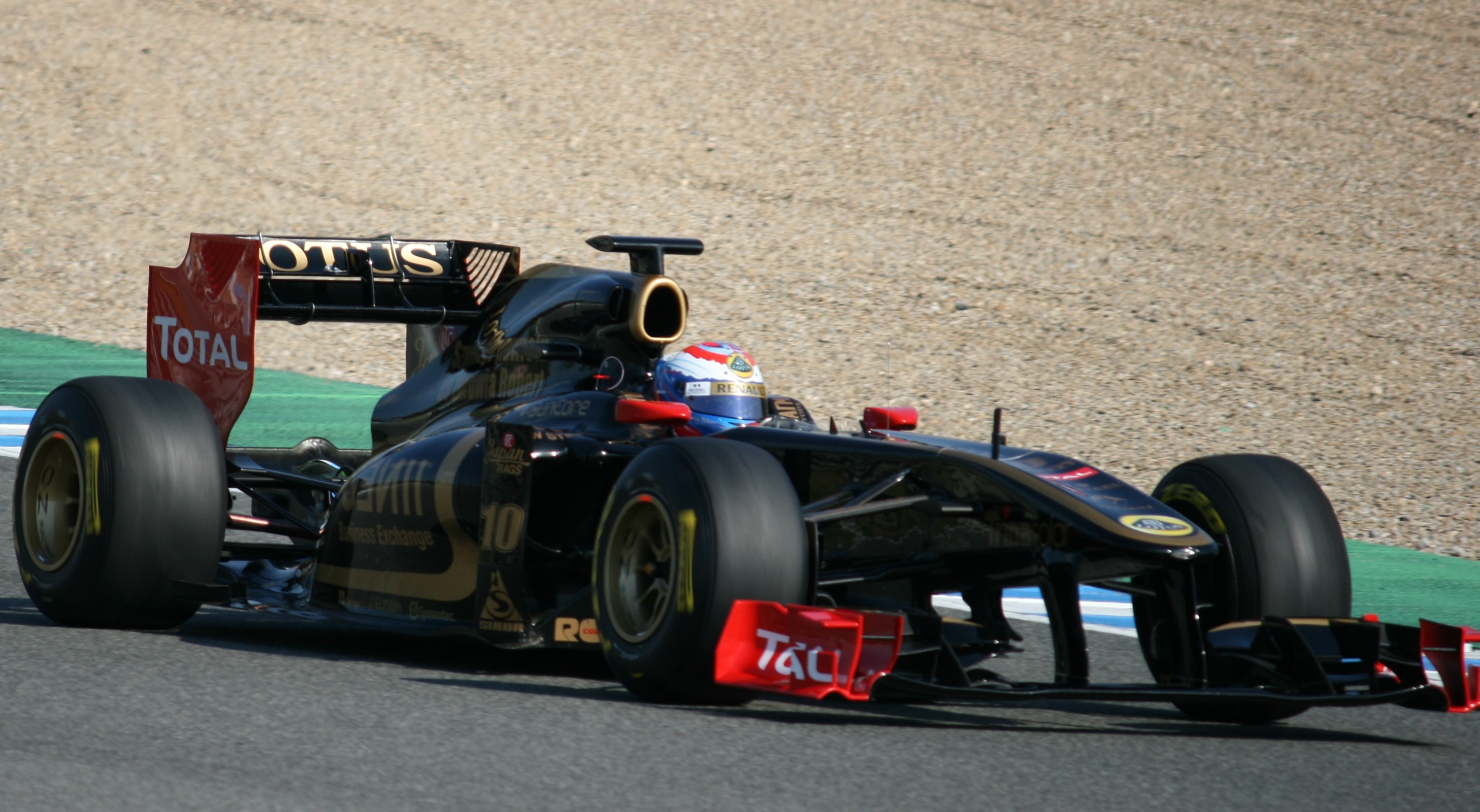 Vitaly Petrov testing for Renault F1 at Jerez.